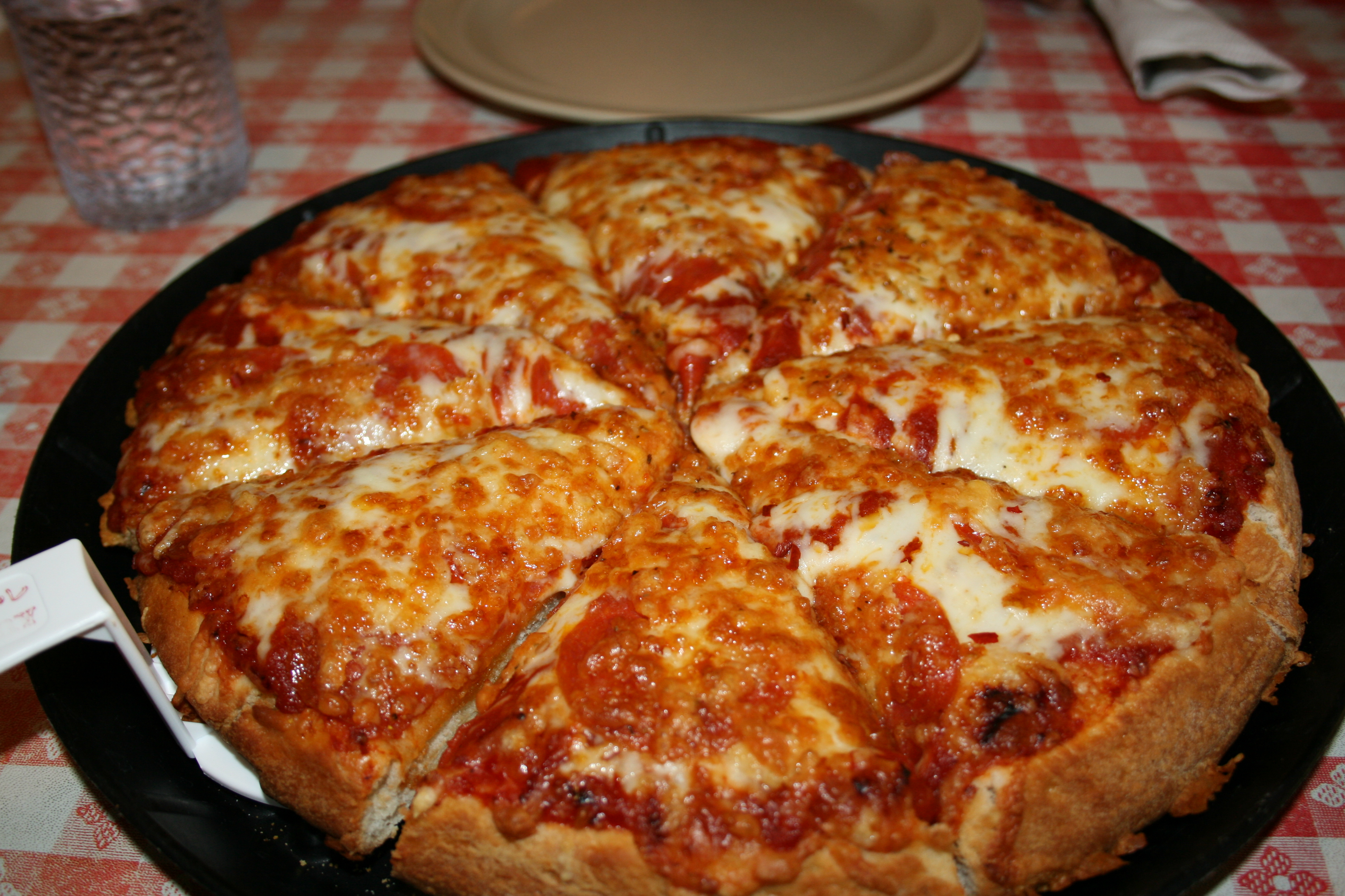 Pizza